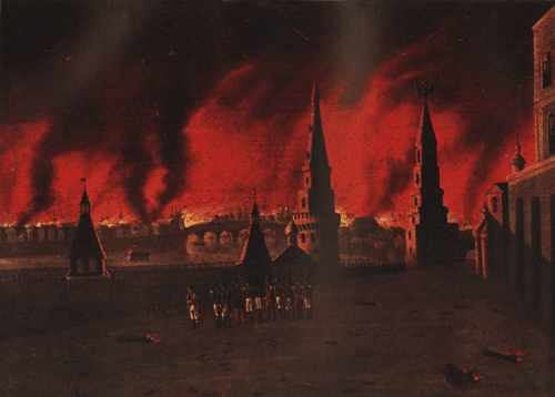 The Great Fire of Moscow in 1812